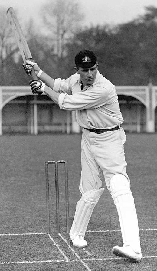 Montague Alfred Noble, New South Wales and Australia, circa 1905.